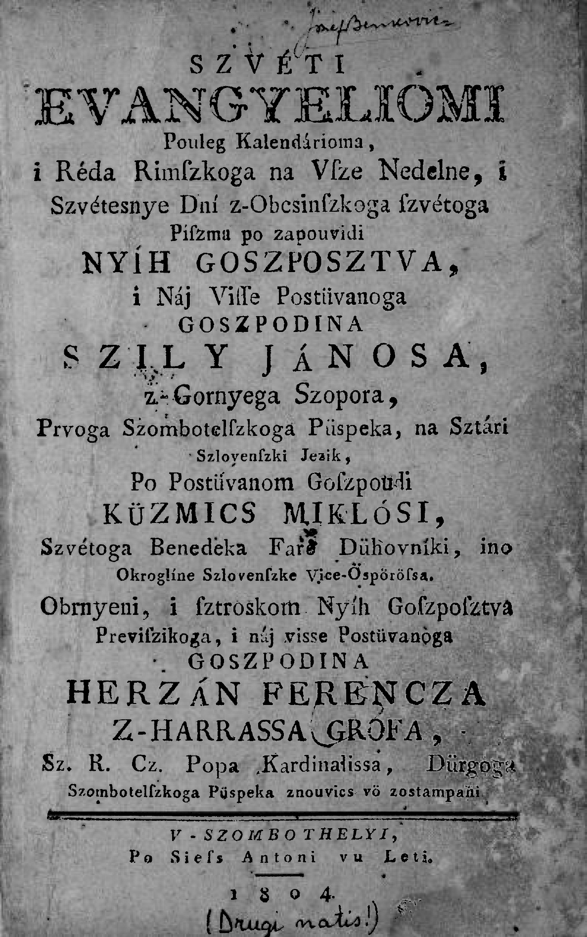 Szvéti evangyeliomi (Holy Gospels) from 1804. By Miklós Küzmics in prekmurian (prekmurščina)